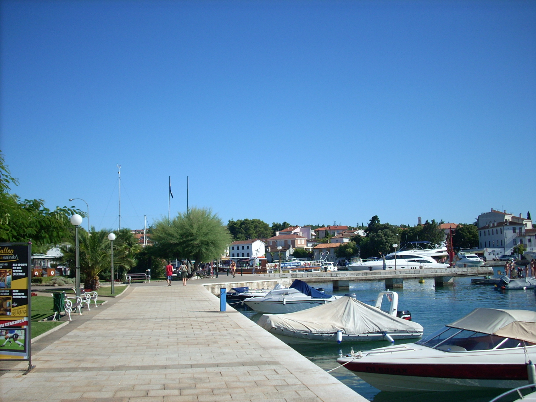 Malinska, Island Krk, Croatia. Right side of Harbour (North-East). Pathways and park.